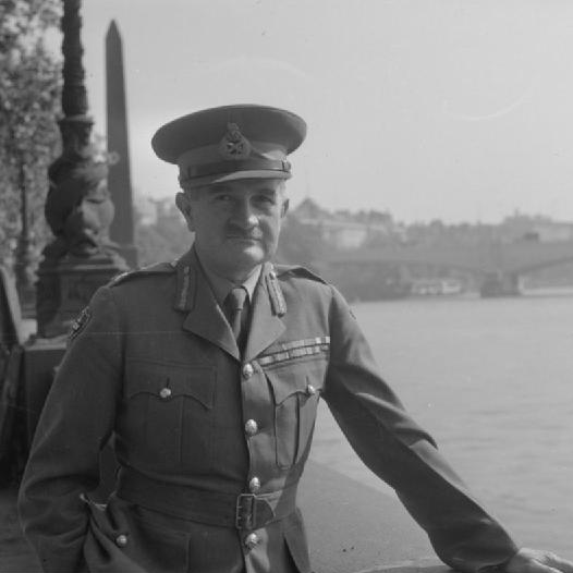 Portrait of Sir William Slim standing on the Embankment in London. Behind him can be seen Cleopatra's Needle, and Waterloo Bridge is also visible in the background.